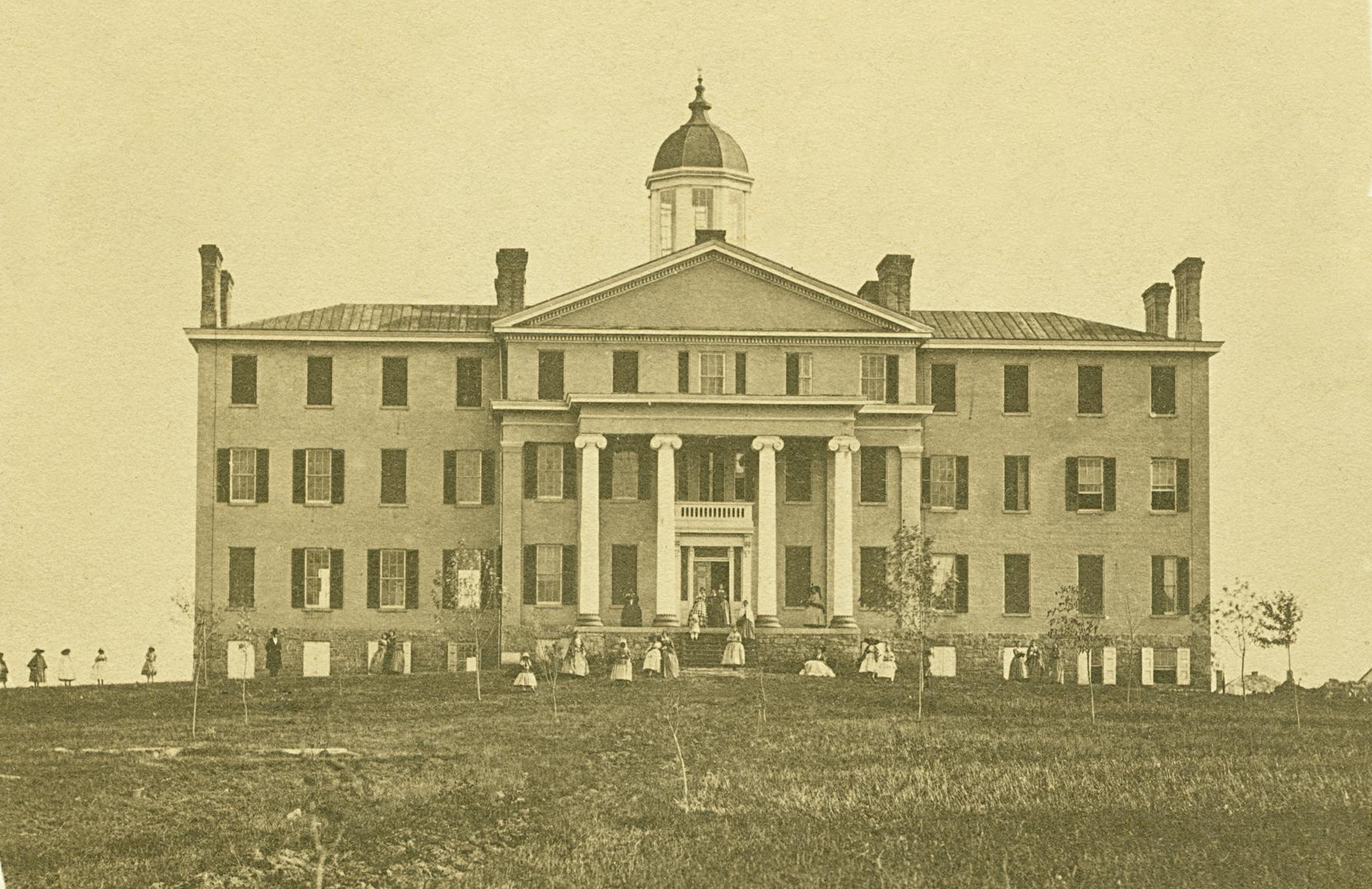 Kee Mar College, circa 1855. Cropped and squared off, with some cleaning and a bit of filling in blank sky.